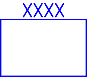 Standard NATO code for a friendly army (3 army corps).